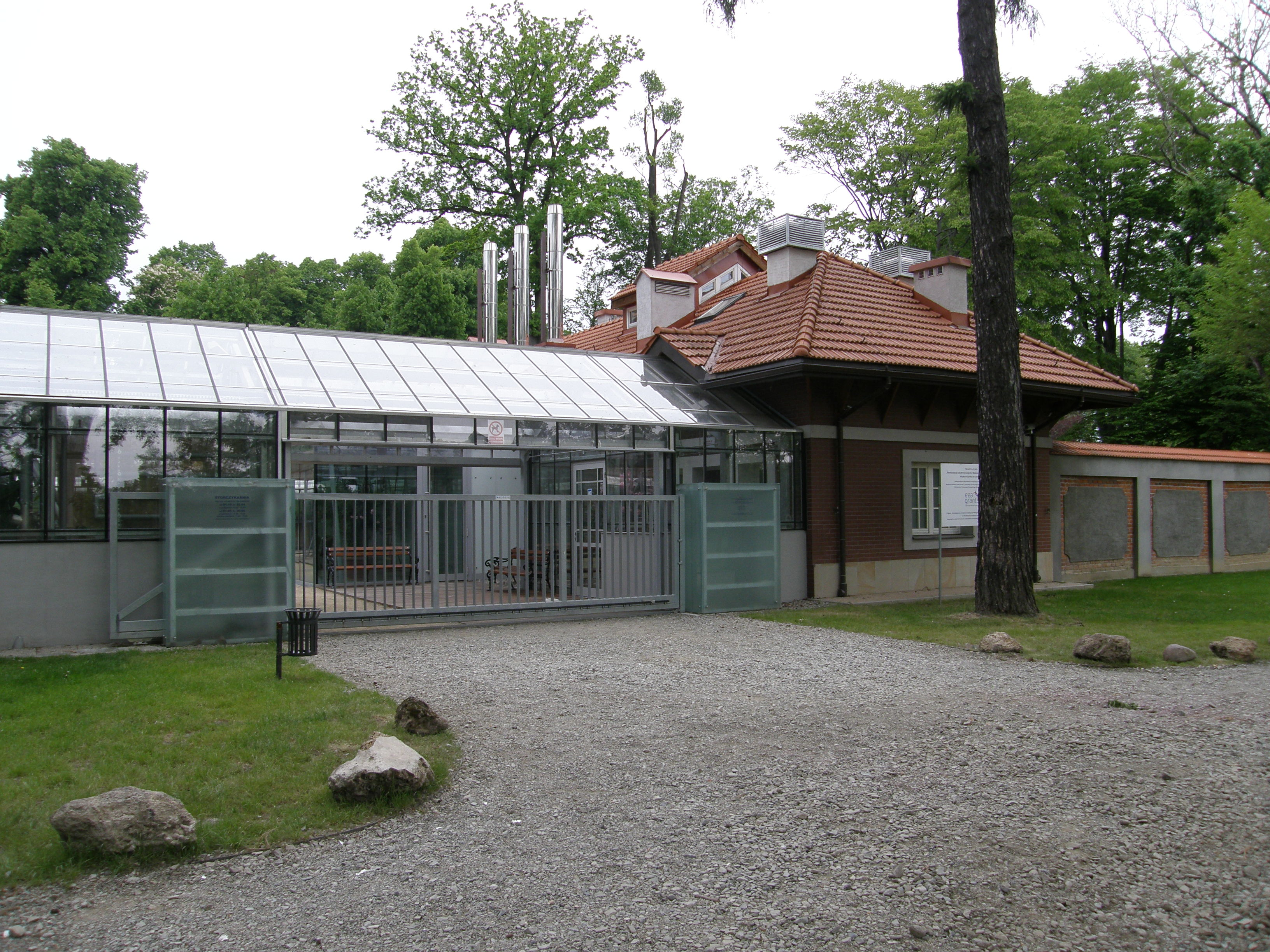 Orchid house - entrance